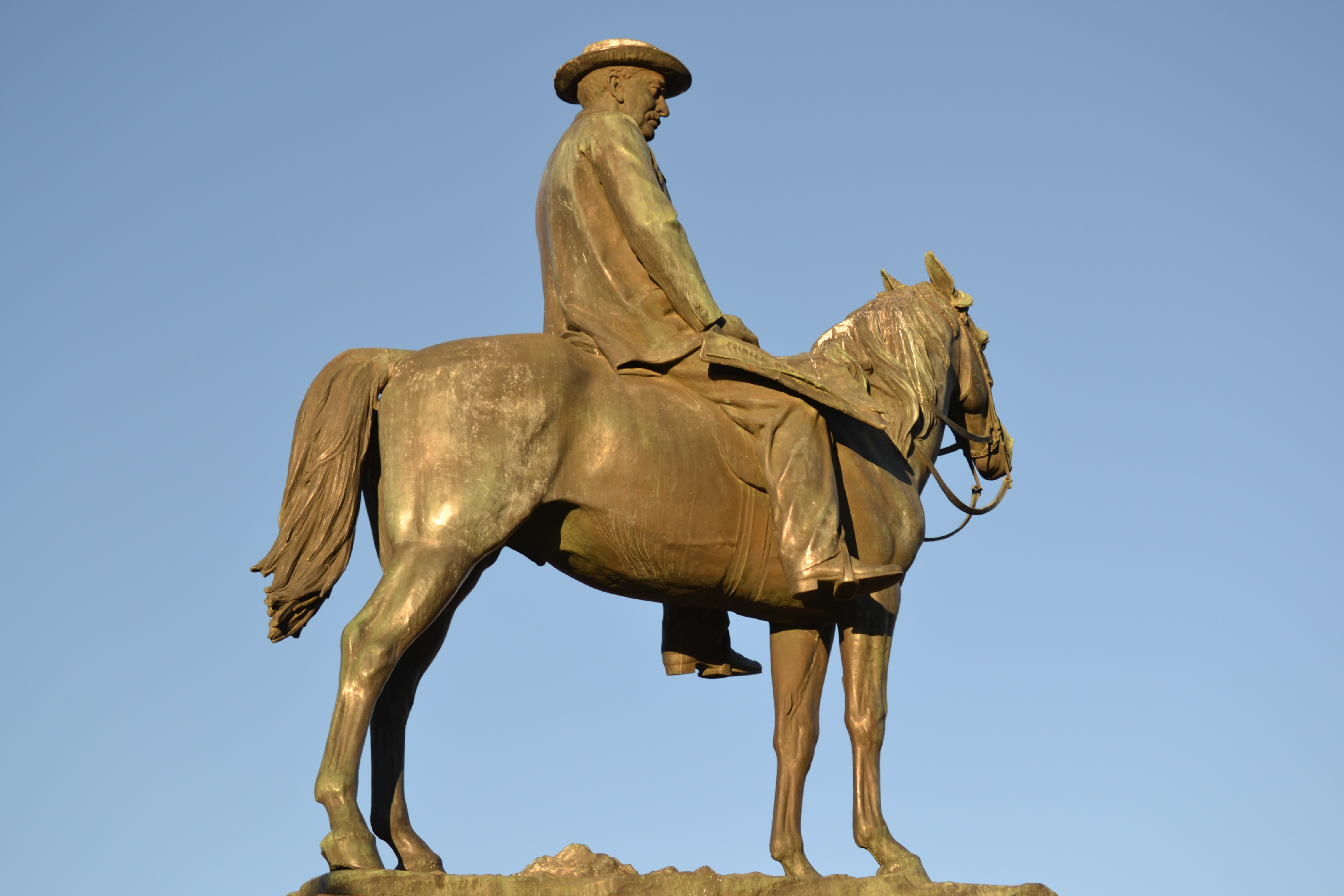 Cecil John Rhodes